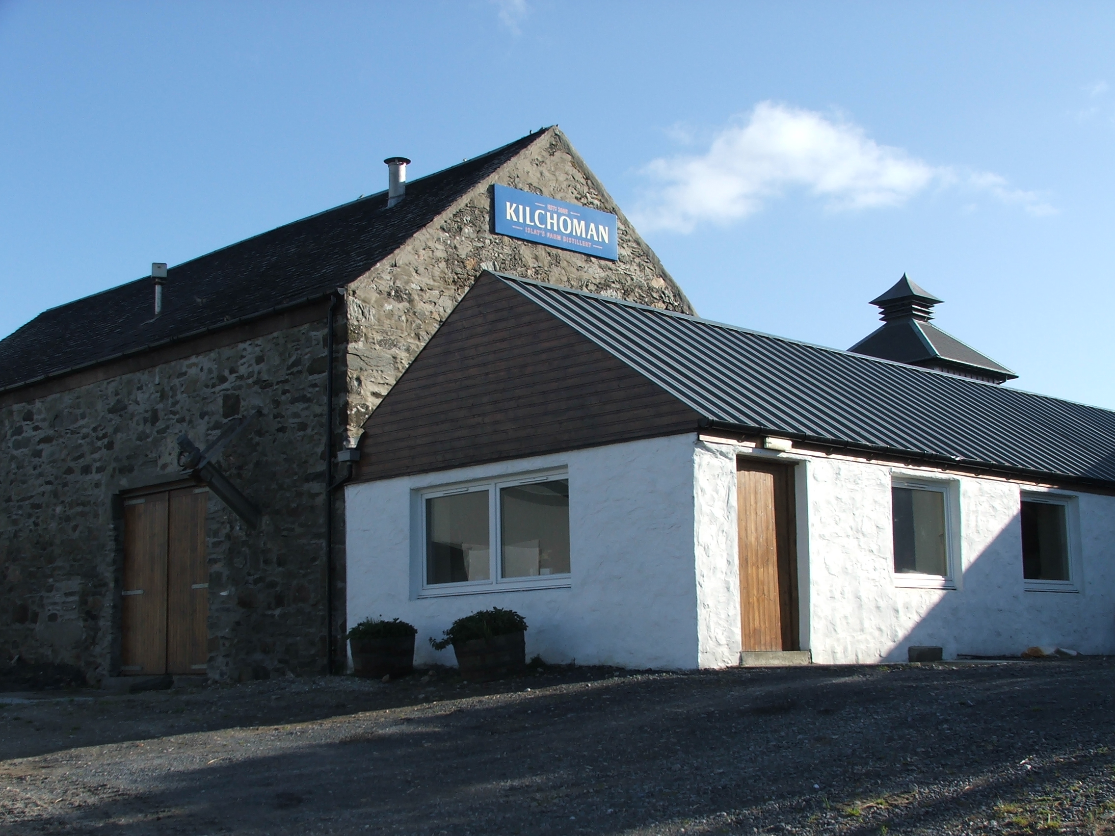 Kilchoman Distillery on the island of Islay, Scotland.